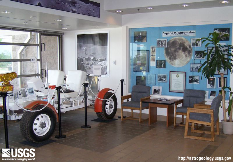 USGS Shoemaker Center for Astrogeology display in entryway features Grover (Geologic Rover) built by the USGS to train Apollo astronauts in the training grounds near Flagstaff.